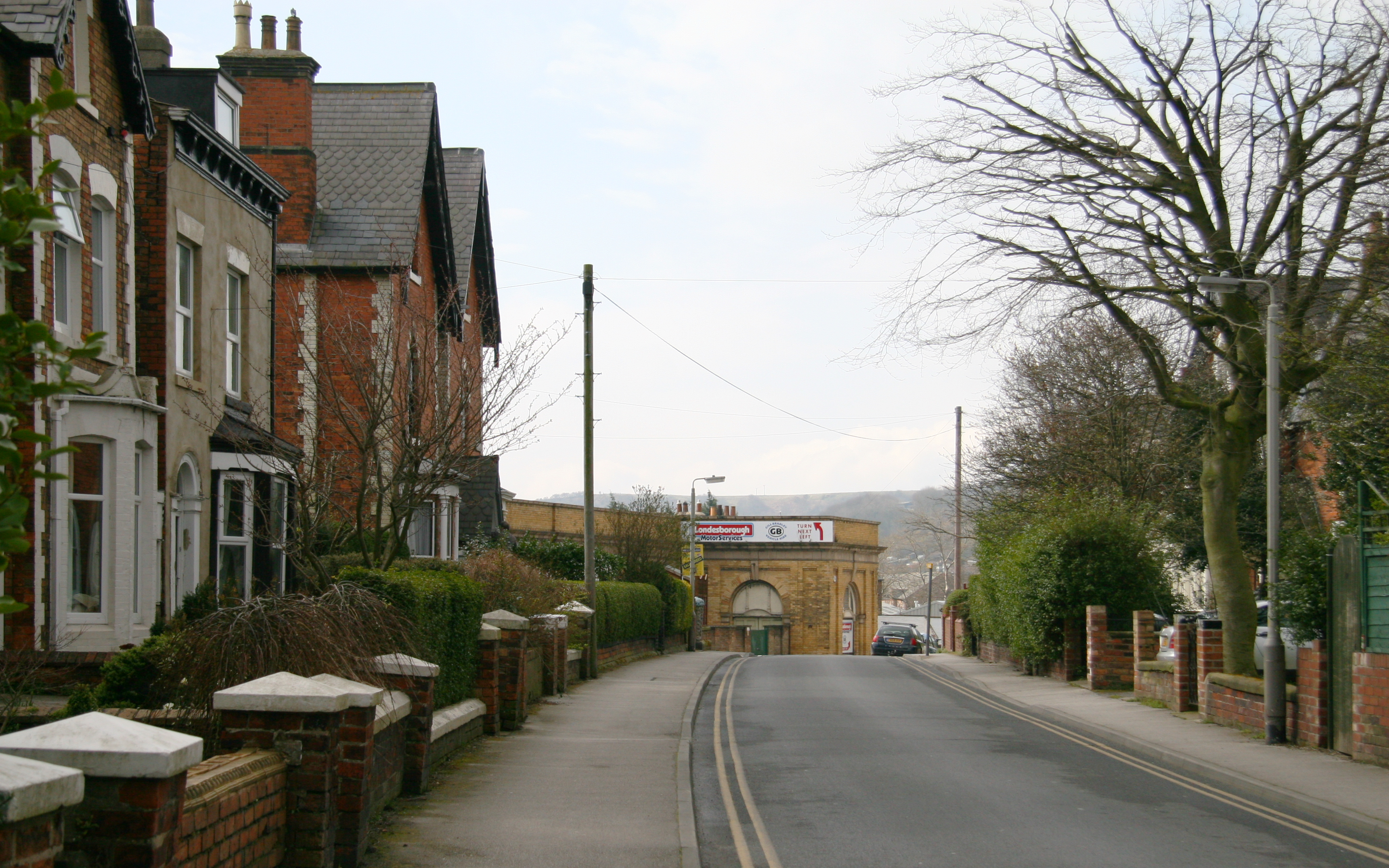 Londesborough Road. This south-westerly facing photograph is of Londesborough Road and was taken from near its junction with 801017 (right and just behind the viewpoint). The photograph is looking toward (lower centre of the picture) what was originally called the Washbeck Excursion Station (It became Scarborough Londesborough Road in 1933: ). Today the building houses a warehouse and garage (Elgin: ). For another photograph of Londesborough Road, taken from the same viewpoint but facing the opposite direction, click here 801022. Road name information from OS Maps at:- Elgin